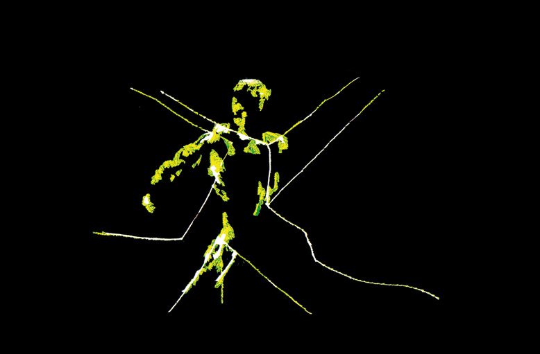 Scratch-Drawing "WaysInOneSelf_1989" on black diapositive by Nikolaus A. Nessler, 1989